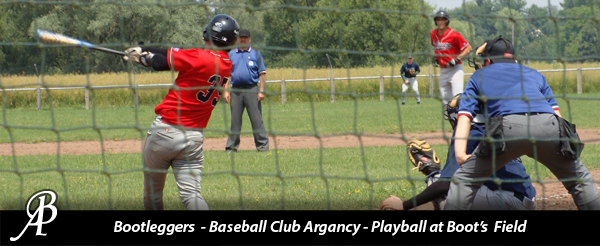 Bootleggers - Baseball Club Argancy - Playball at Boot's Field